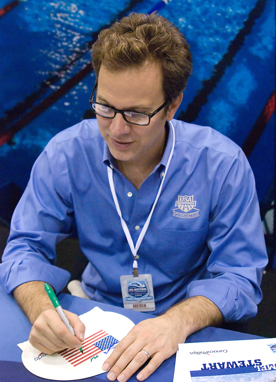 Melvin Stewart in 2009 at the trials to the world championships.